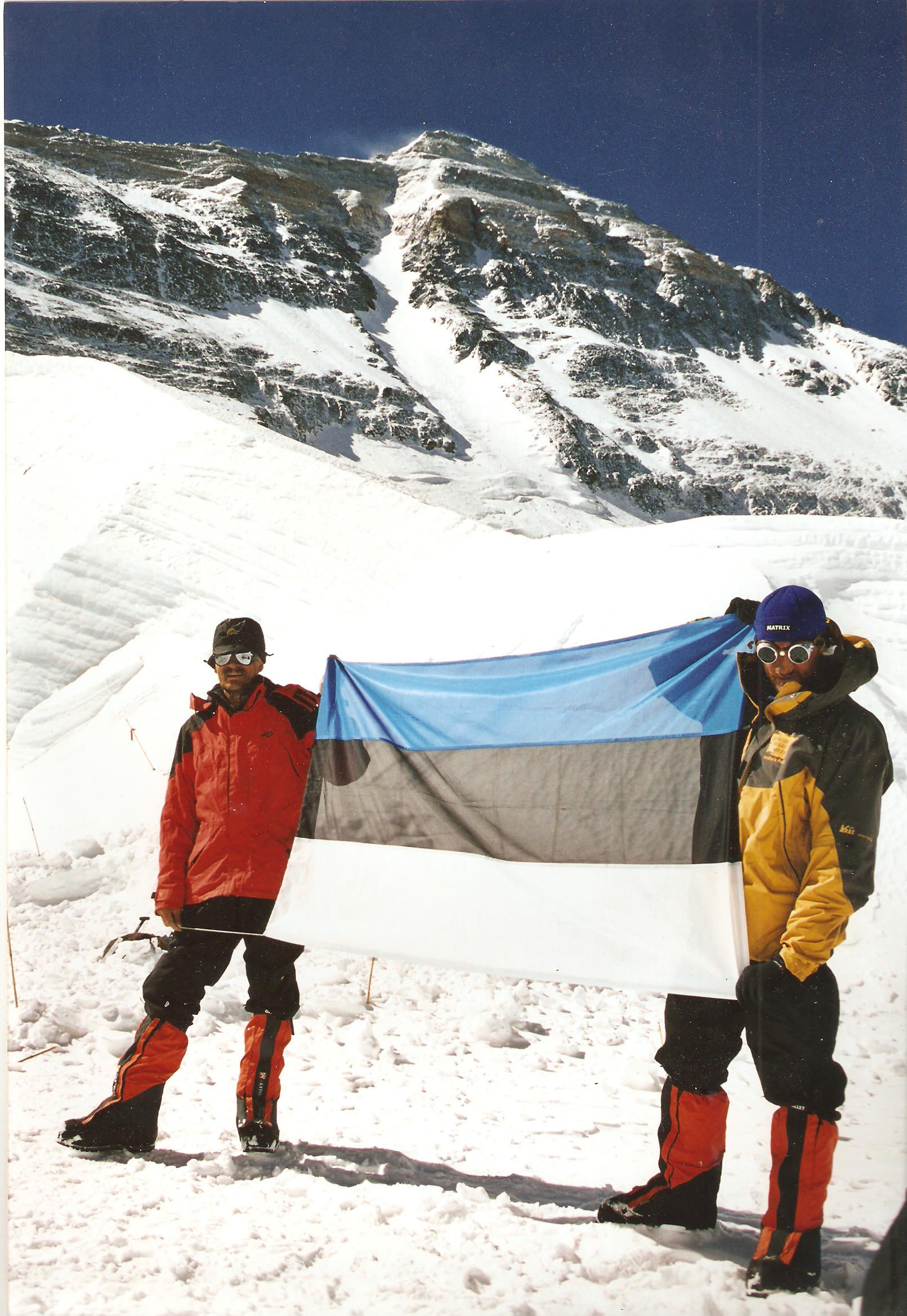 Tõivo Sarmet with Alar Sikk on Mt. Everest north side, 7070 m, May 2003